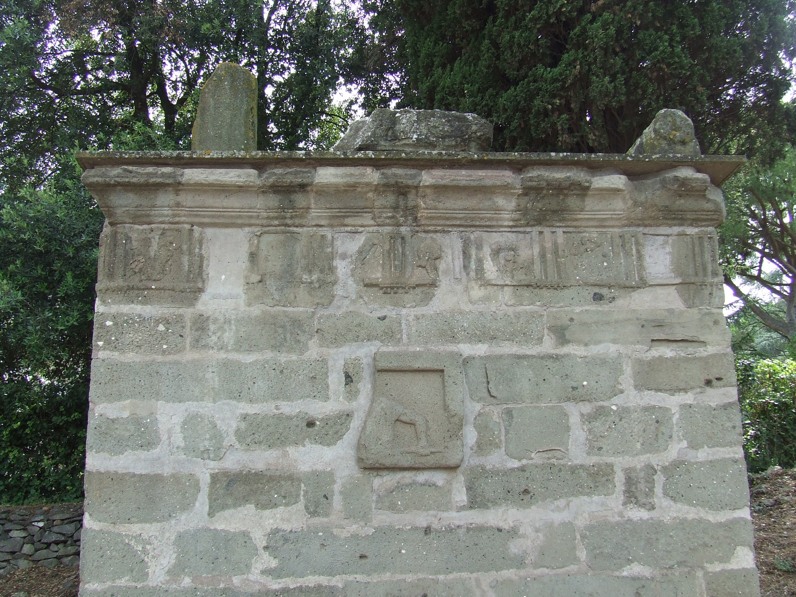 · · · · mAppiaM!Mapping the via Appia Antica, Rome, for Wikipedia, OpenStreetMap, WikiData and Wikimedia Commons